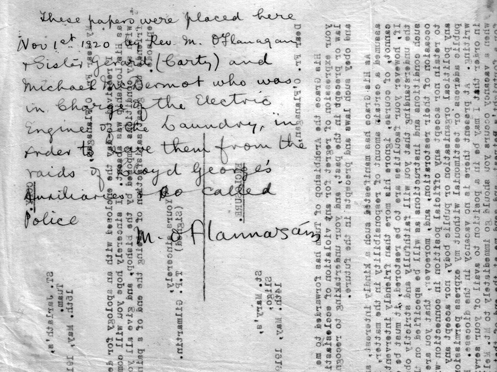 These papers were placed here Nov 1st 1920 by Rev. M. O'Flanagan & Sister Gerald (Carty) and Michael McDermot who was in charge of the electric engine of the Laundry, in order to save them from the raids of lloyd George's Auxiliaries & so-called police. M. O;Flannagáin.